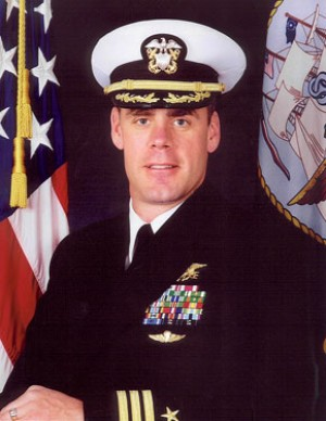 Ryan Zinke for Congress